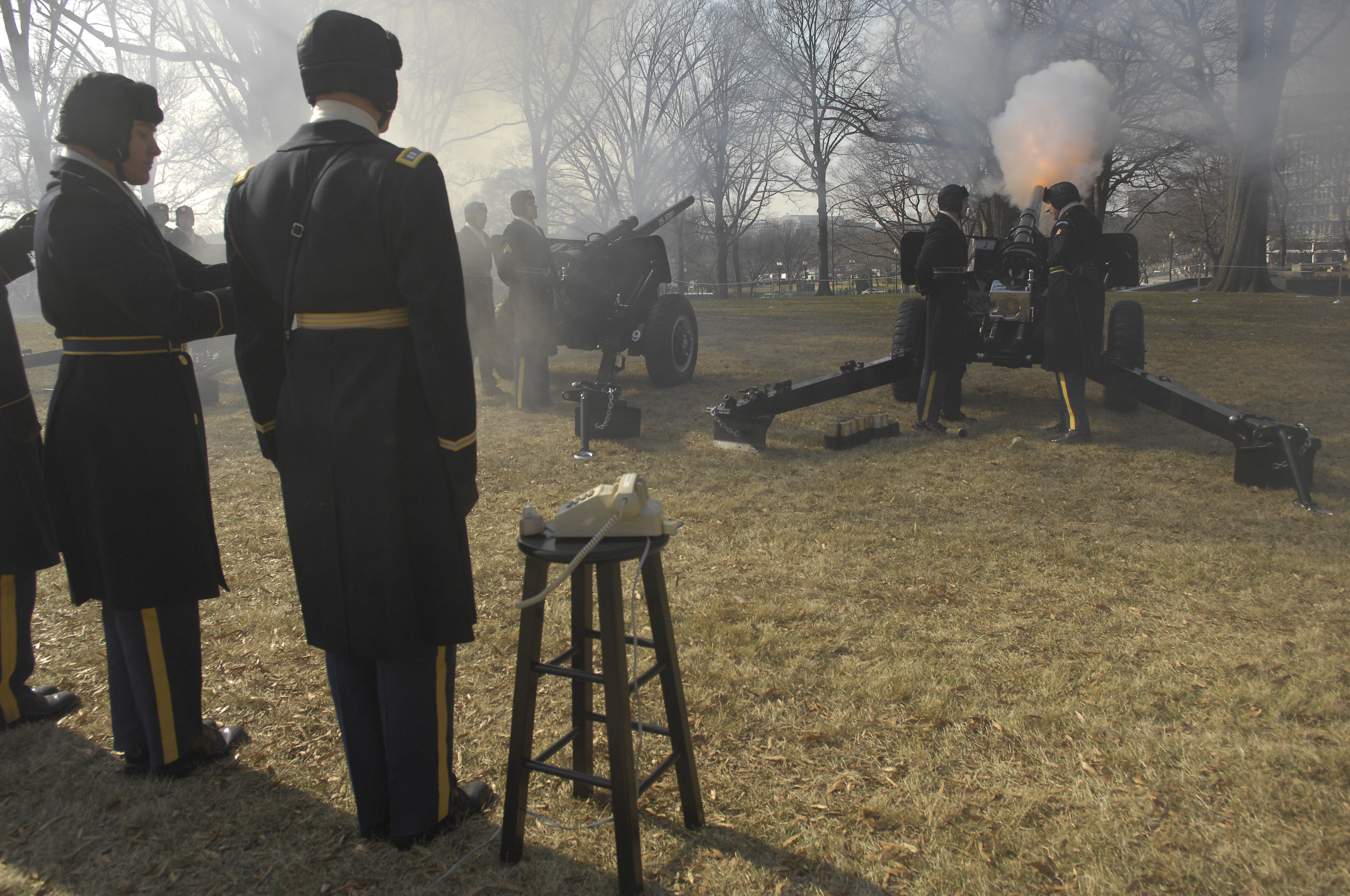 Presidential Salute Battery Soldiers of U.S. Army 1st Battalion, 3rd Infantry Regiment, Headquarters and Headquarters Company, fire the 3-inch anti-tank guns during the 21-gun salute at Taft Park adjacent the U.S. Capitol, during Barack Obama's inauguration on Jan. 20, 2009.